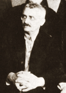 Ivan Smirnov (1881-1936) – Russian revolutionary, Bolshevik, Soviet politician, victim of the Great Purge